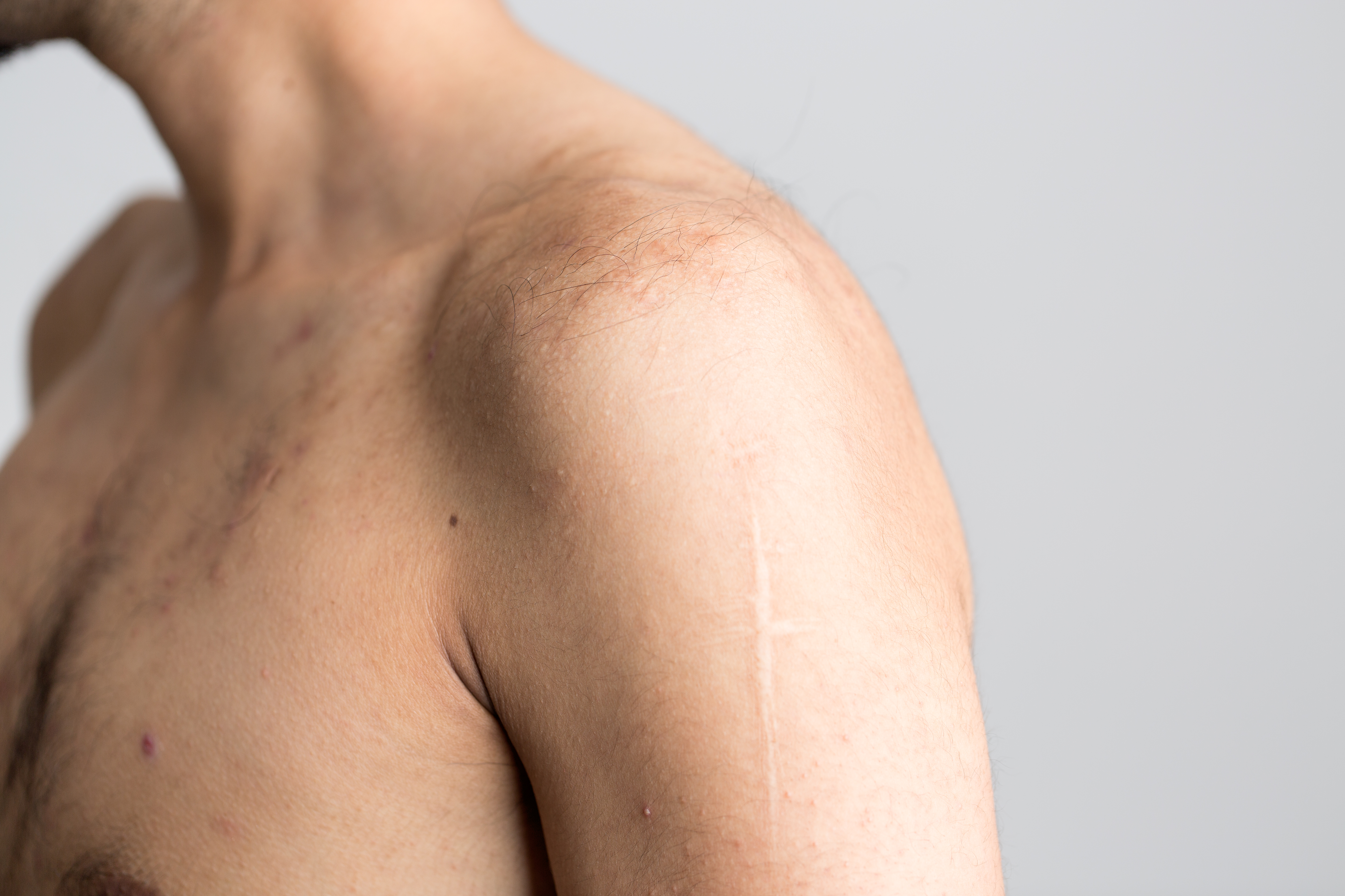 Alexander, 30 years old